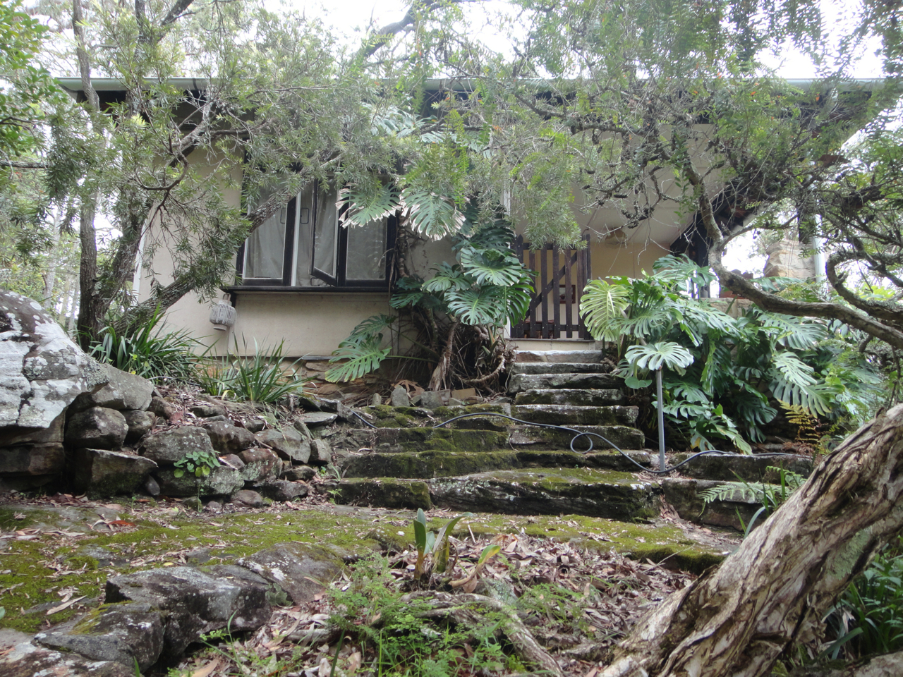 Marie Byles' house, 'Ahimsa'